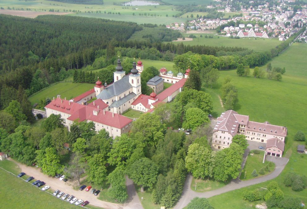 Monastery Hedeč near Králíky (the Czech Republic)